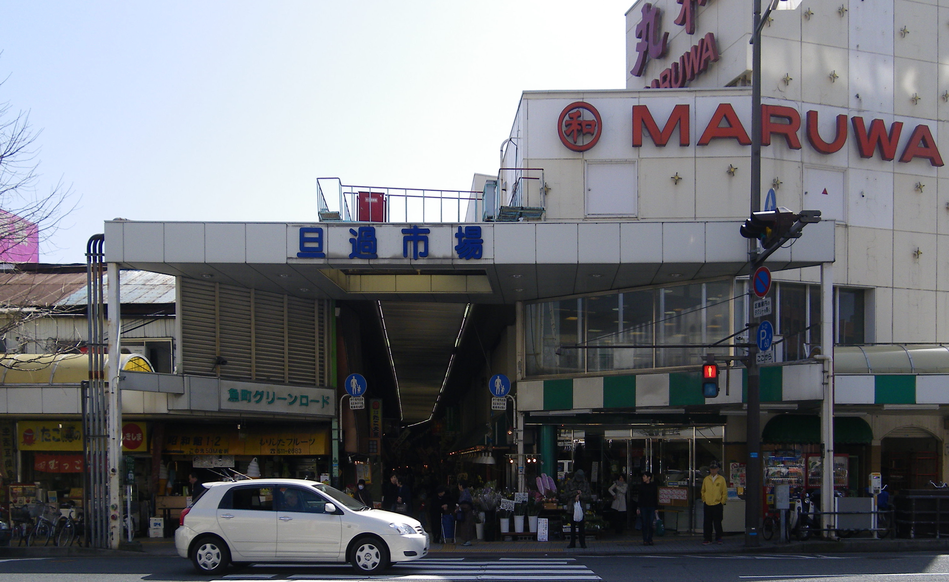 The north side entrance of Tanga Ichiba,Kitakyushu.